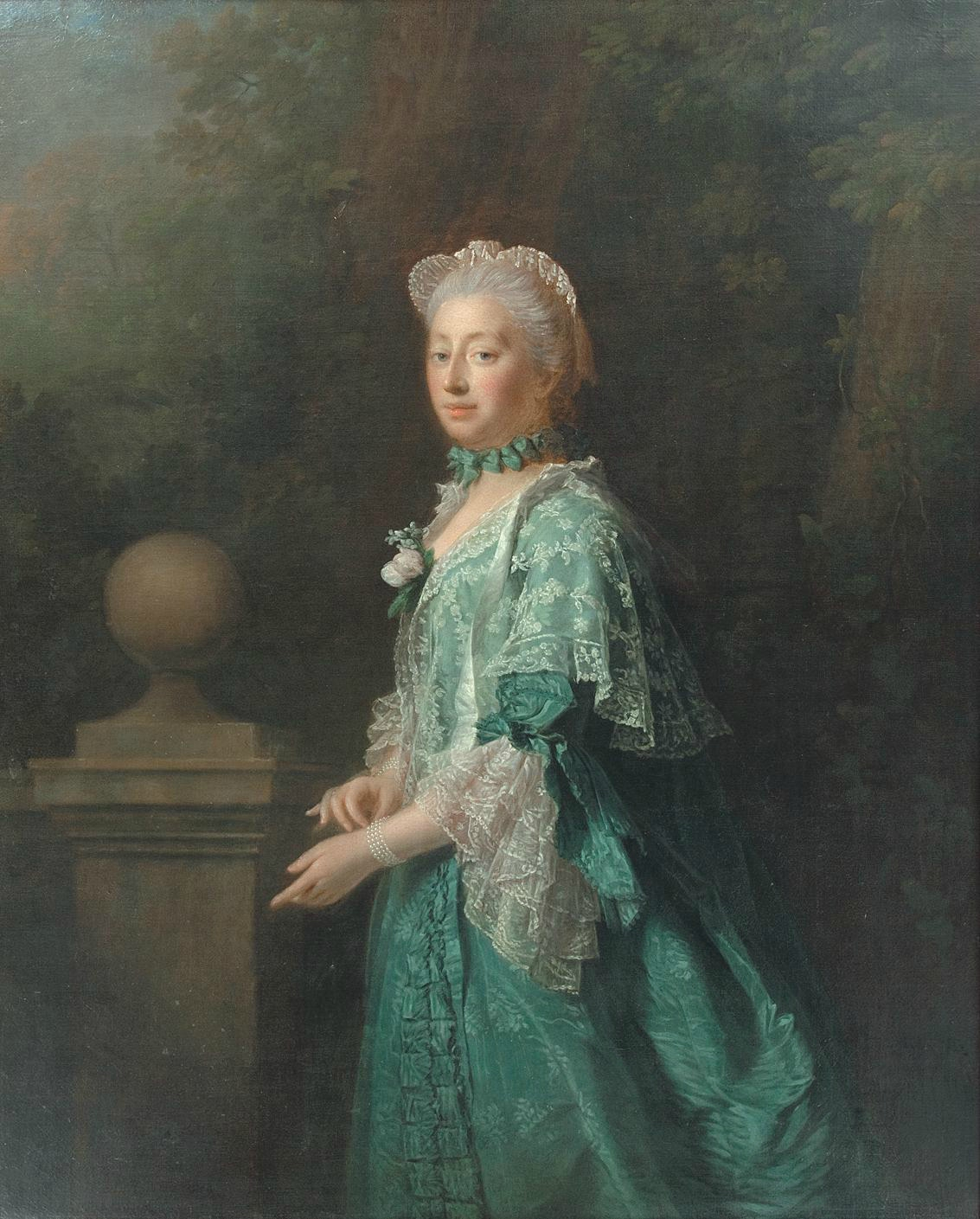 Portrait of Augusta of Saxe-Gotha (1719-1772) as Dowager Princess of Wales